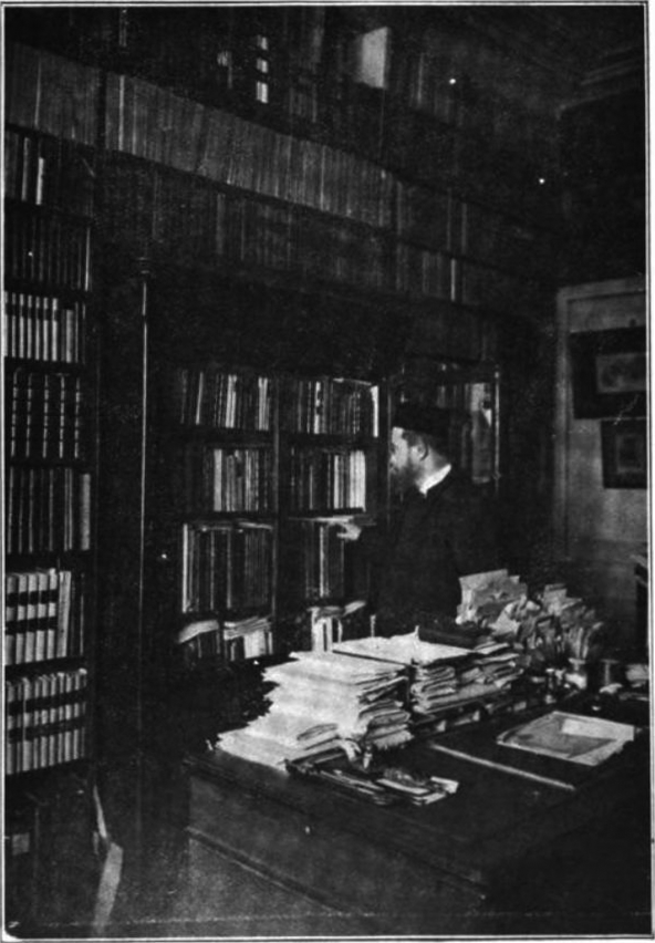 Maurice Tourneux (12 July 1849-13 January 1917), French erudite and 18th-Century scholar.